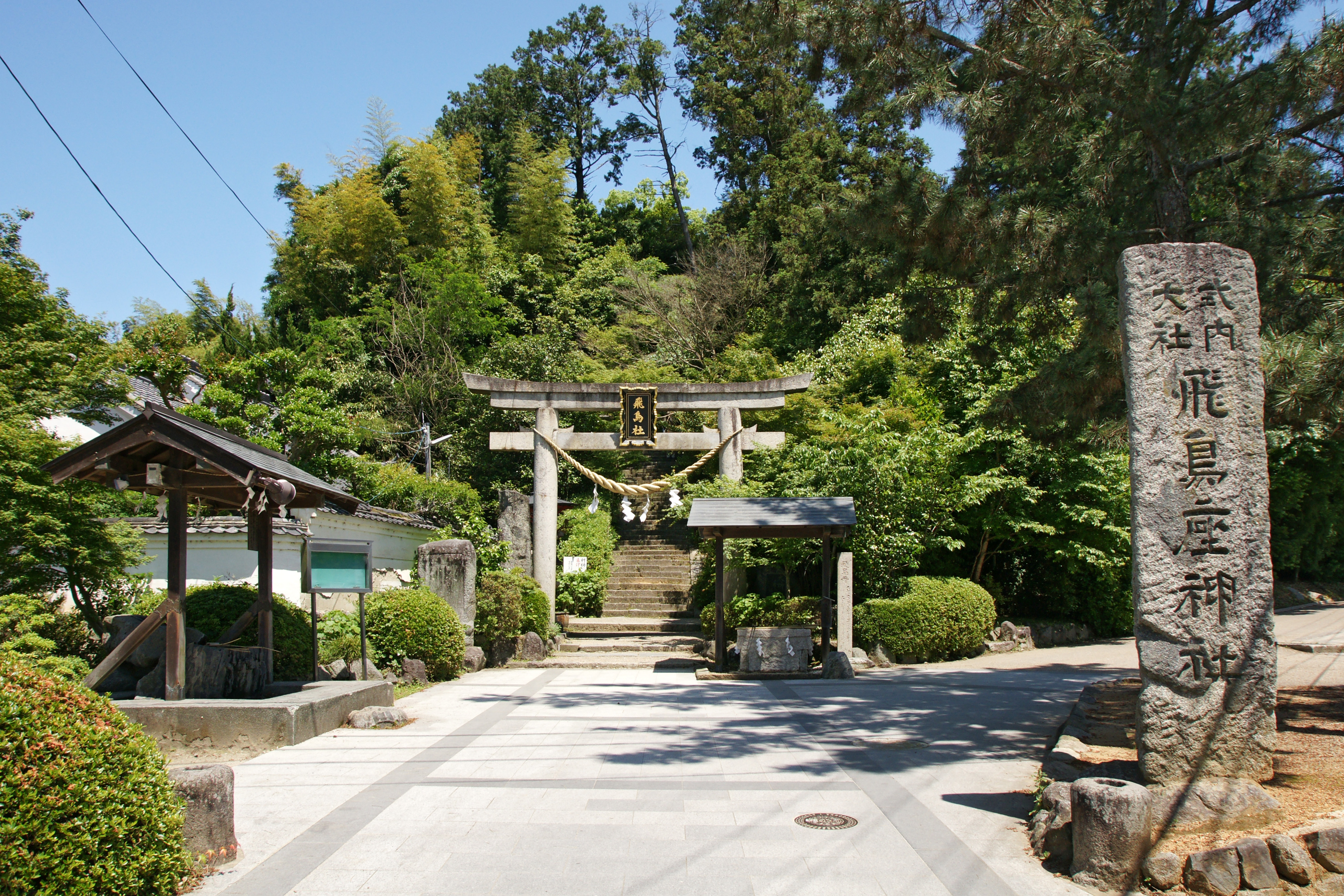 Asukaniimasu-jinja in Asuka, Nara Prefecture, Japan.